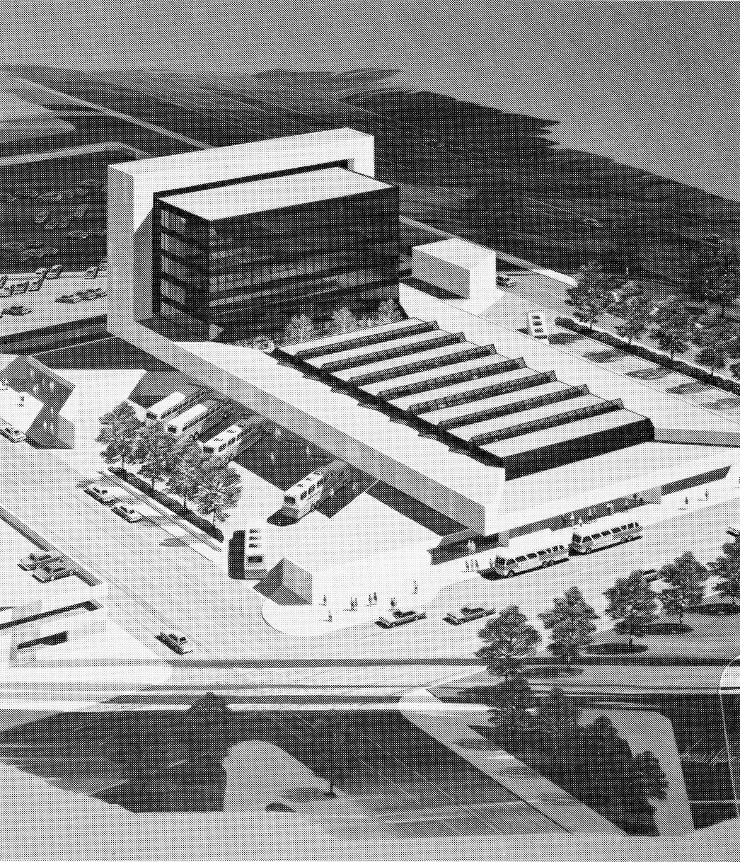 Illustration from NFTA annual report. Original caption: "Artist's rendering of Metropolitan Transportation Center."